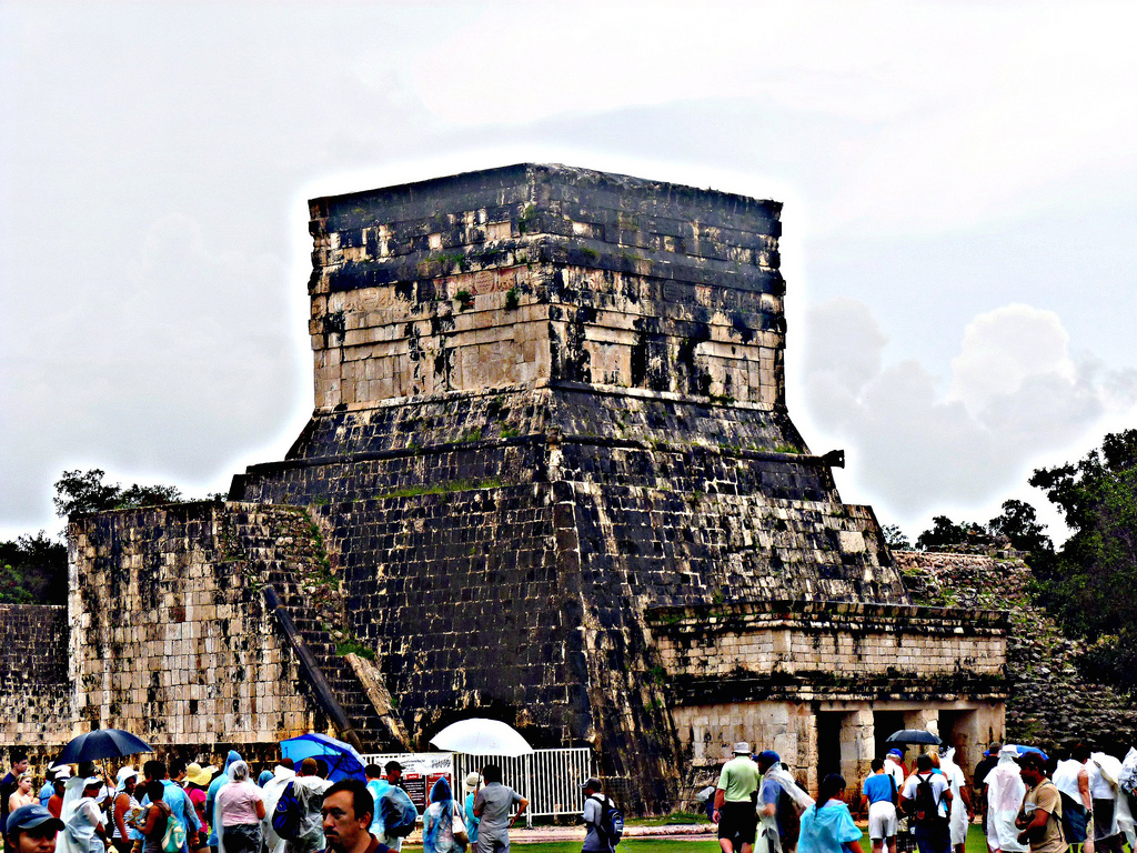 Chichen Itza, Great Ball Court,Temple of the Jaguars